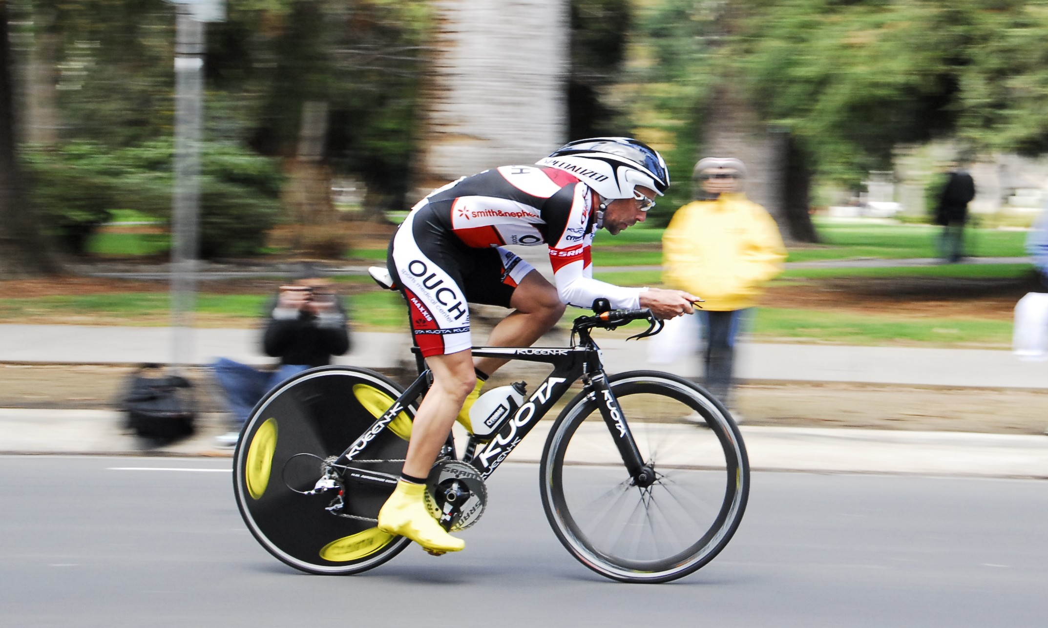 Timothy Johnson, Tour of California 2009